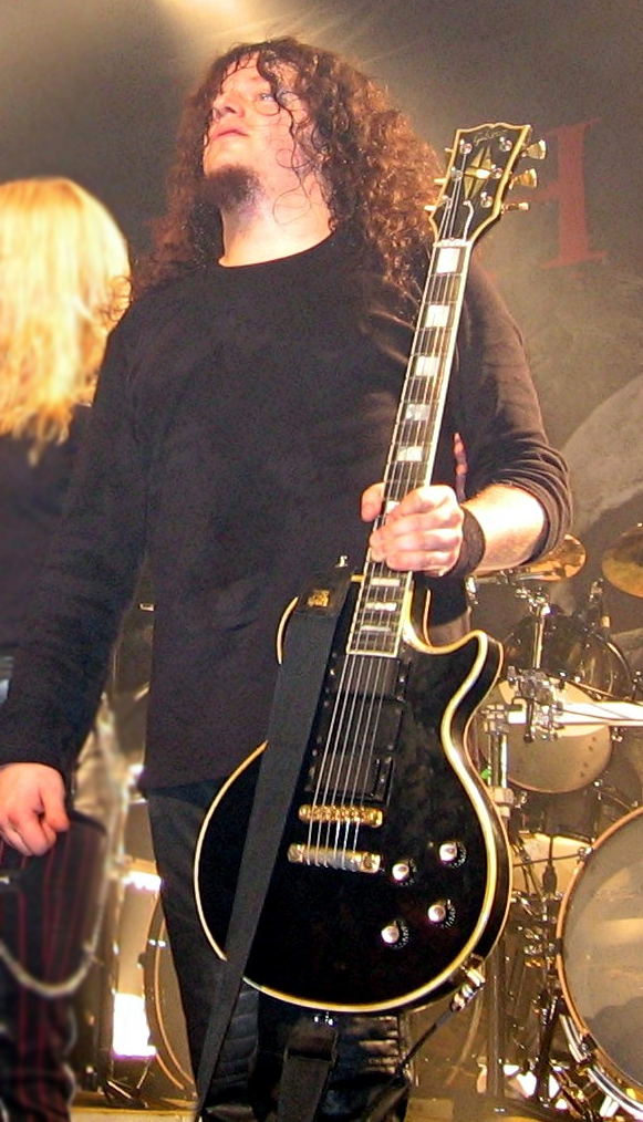 Fredrik Åkesson with Arch Enemy.